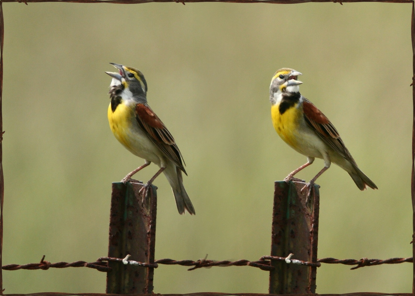 Best viewed Large Wikipedia: The Dickcissel, Spiza americana, is a small seed-eating bird in the family Cardinalidae. It possibly is the only member of the genus Spiza (Bonaparte, 1824). The Dicksissel gets his name from his song: Dick, Dick, Dick-Sissel......... Out of 1380 entries (month of Sept 2006) in animal category, this picture finished 35th from top. This is two different shots of the same bird. Stitched together and then framed in barb wire frame. Explore: Sept. 1st 2006 (#90) Sigma 50-500mm F4-6.3 DG Photographs taken at Attwaters National Wildlife Refuge in Sealy, Texas